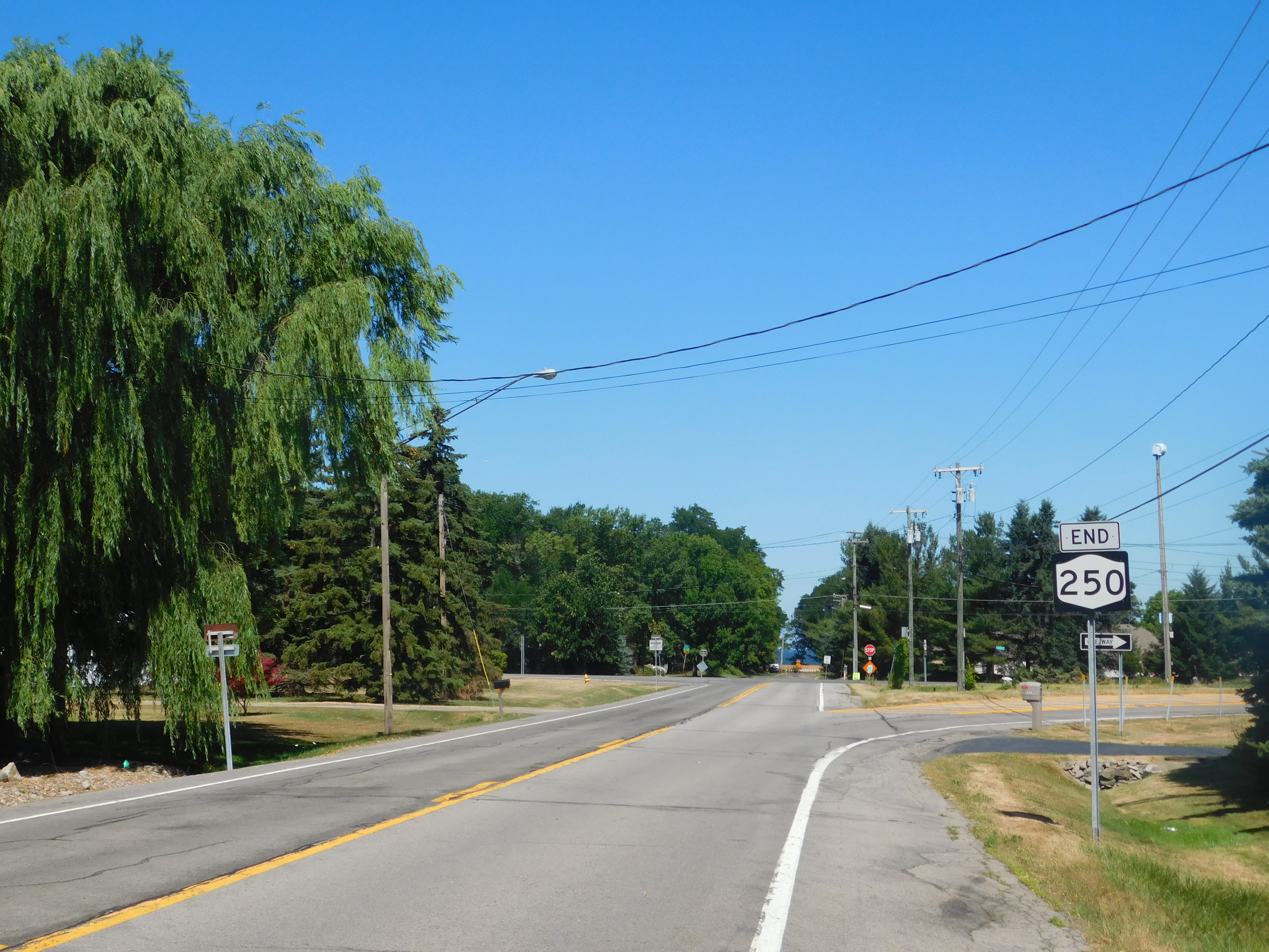 NY 250 northbound approaching its end at Lake Road in Webster, New York.